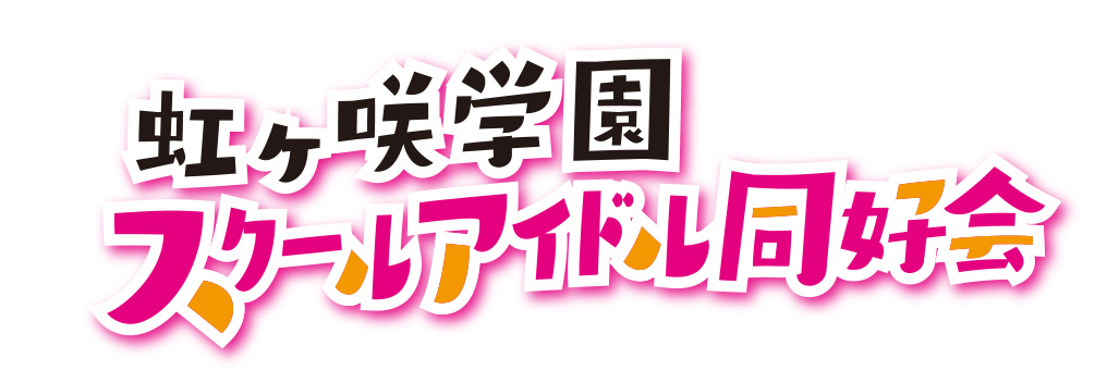 Official Japanese logo of "Nijigasaki High School Idol Club" from Love Live! series